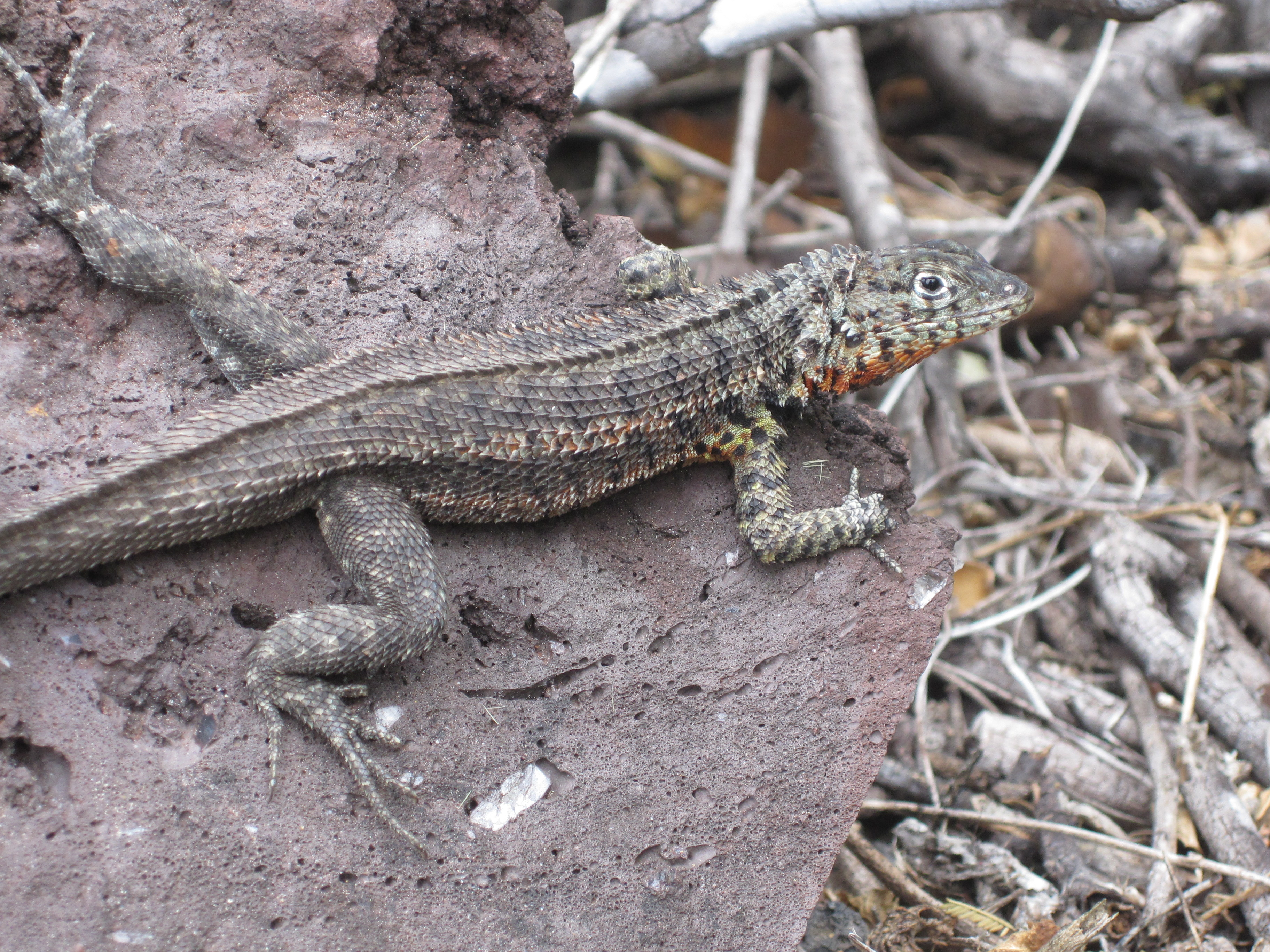 Female lava lizard (Microlophus indefatigabilis) on the island of Santa Cruz, Galápagos